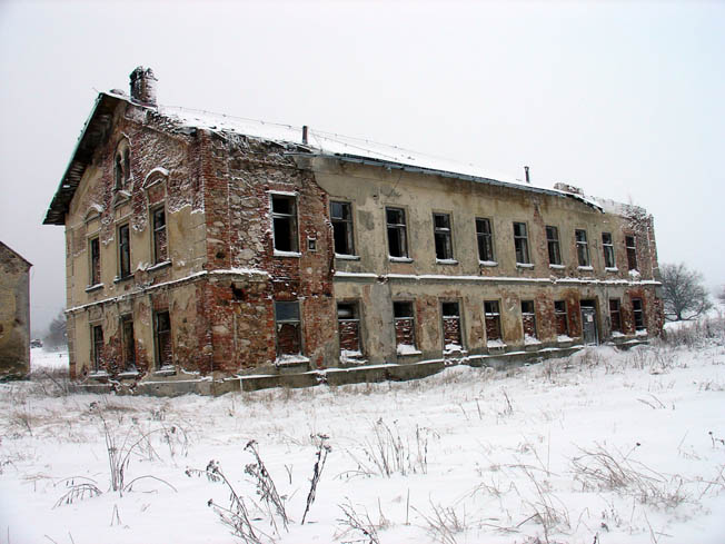 Hat factory and dancing hall in Fojtovice, Czech Republic